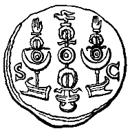 738 woodcuts illustrating the work A Dictionary of Roman Coins, Republican and Imperial (1889). To identify a coin please look at the filename to identify a page number, and check the Dictionary on numiswiki